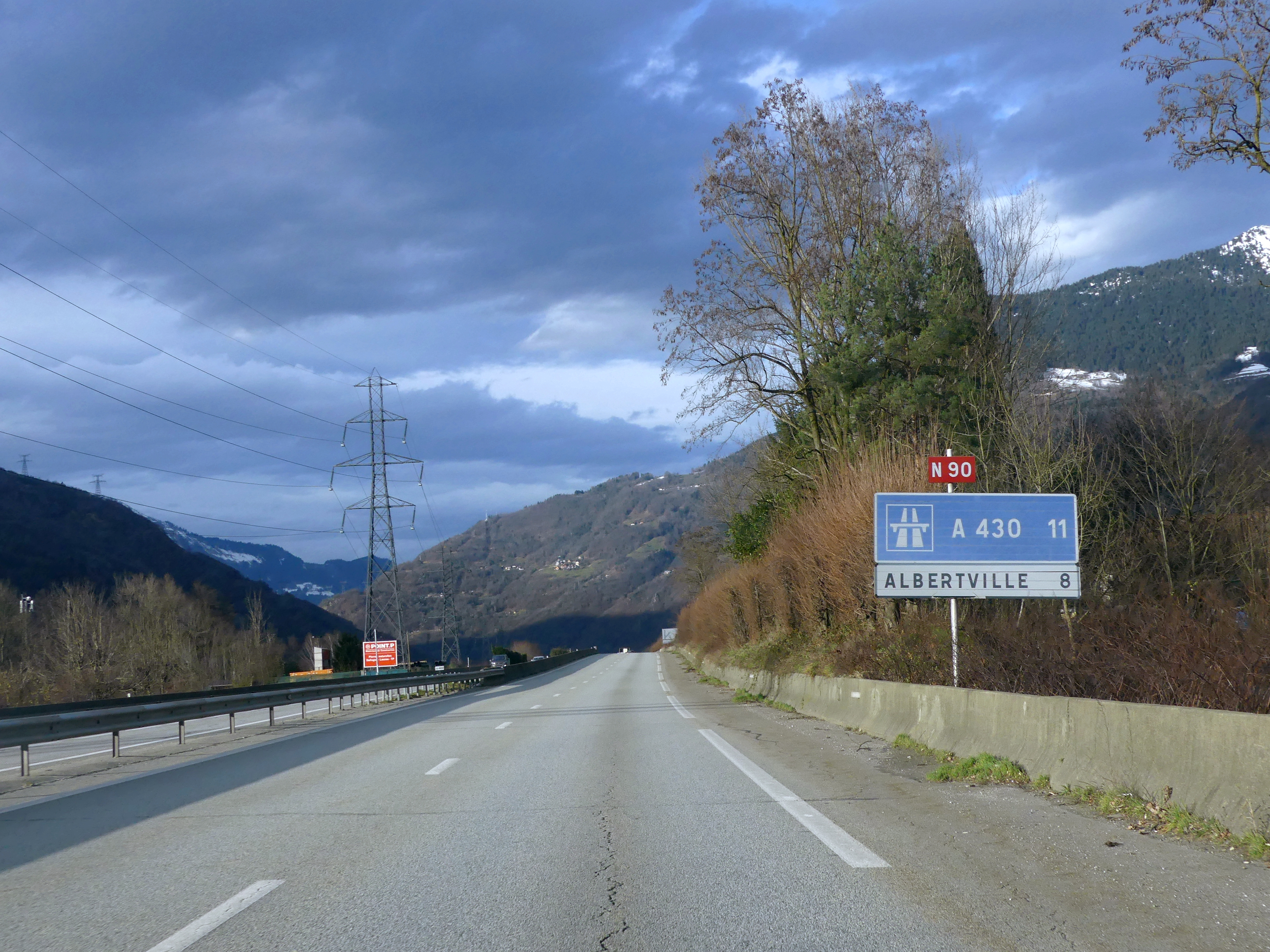 Sight of the Route nationale 90 French national road, from Moûtiers to Albertville in the Tarentaise valley of Savoie.